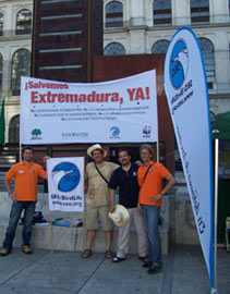 Grupo de trabajarodes y voluntarios de SEO/BirdLife durante el acto de apoyo a la plataforma "Refinería NO" en Museo Reina Sofía de Madrid.